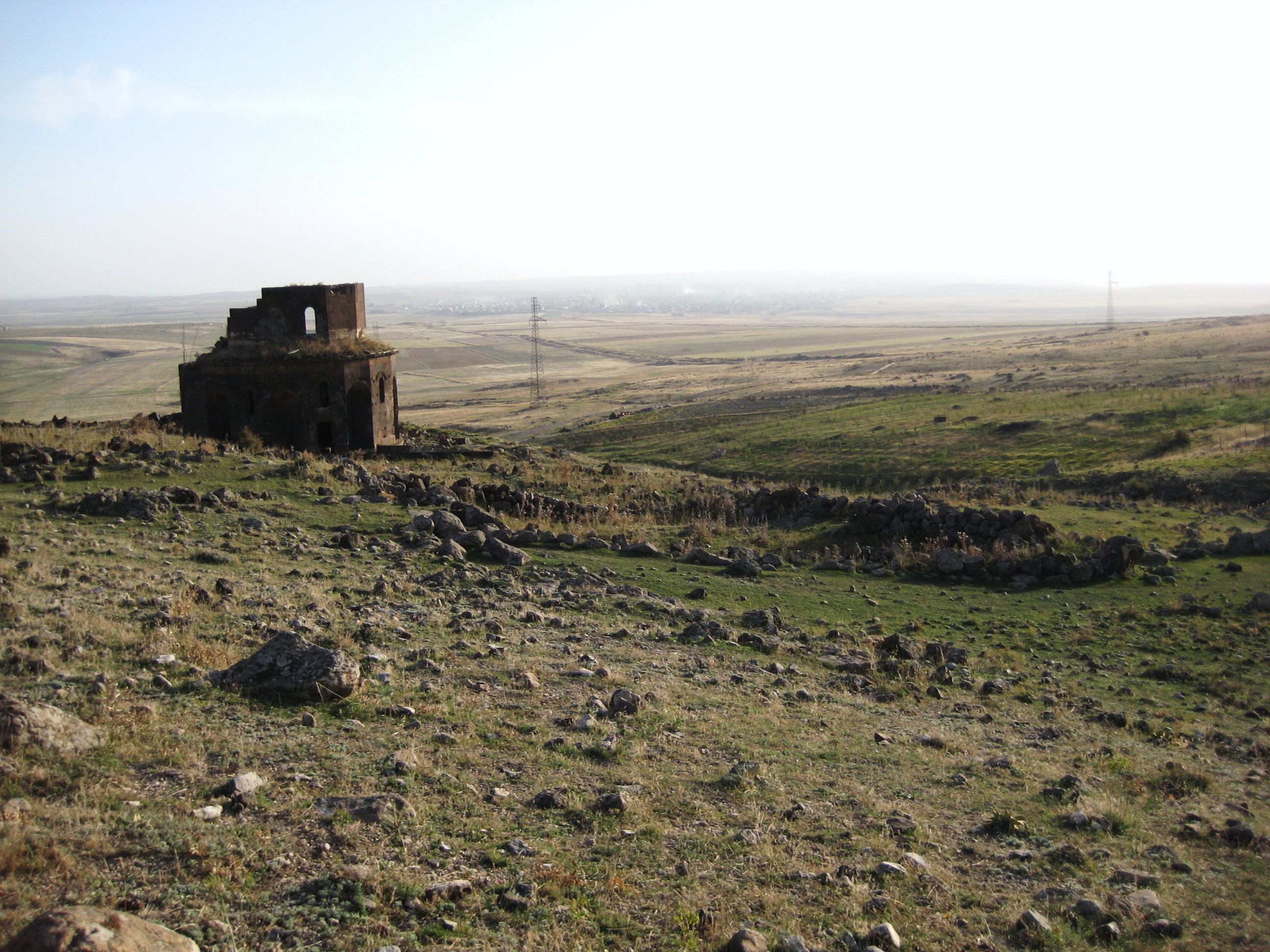 View of Gharghavank with the village of Yeghvard in the distance.